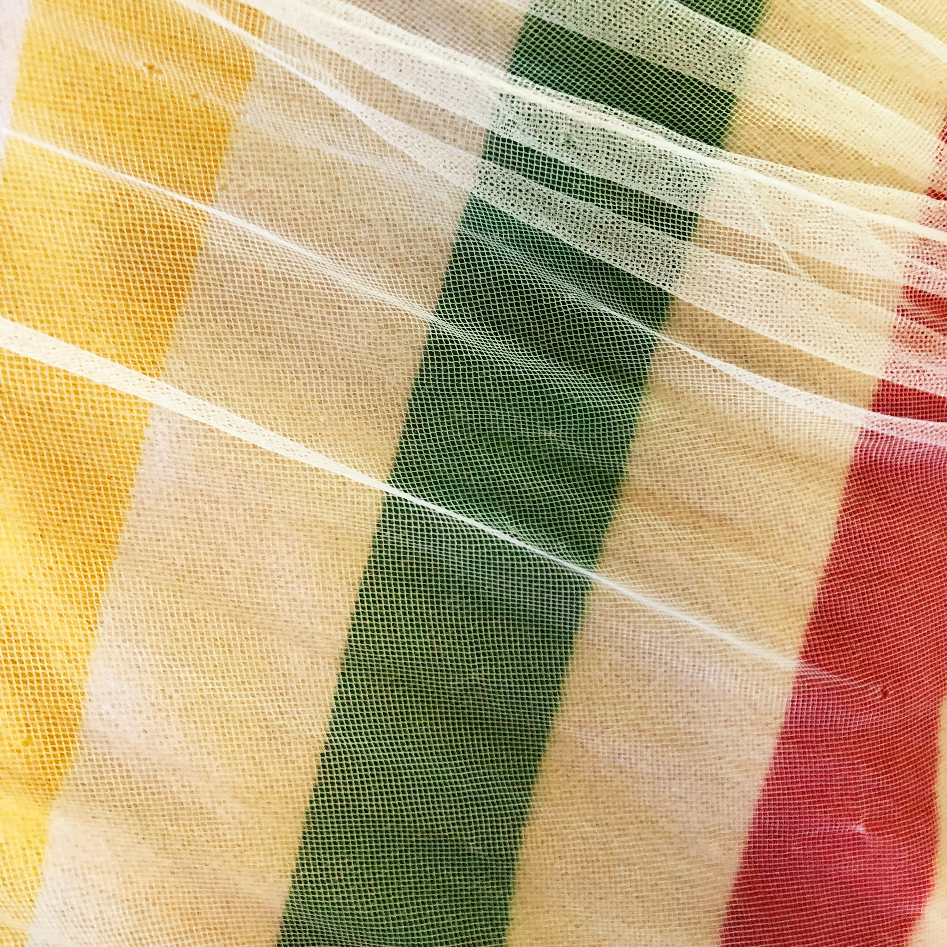 Blanket with mosquito net on it at R-Ranch at the Lake in Napa, California